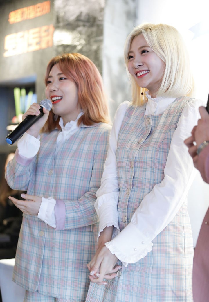 Bolbbalgan4 at a fansinging on March 6, 2018